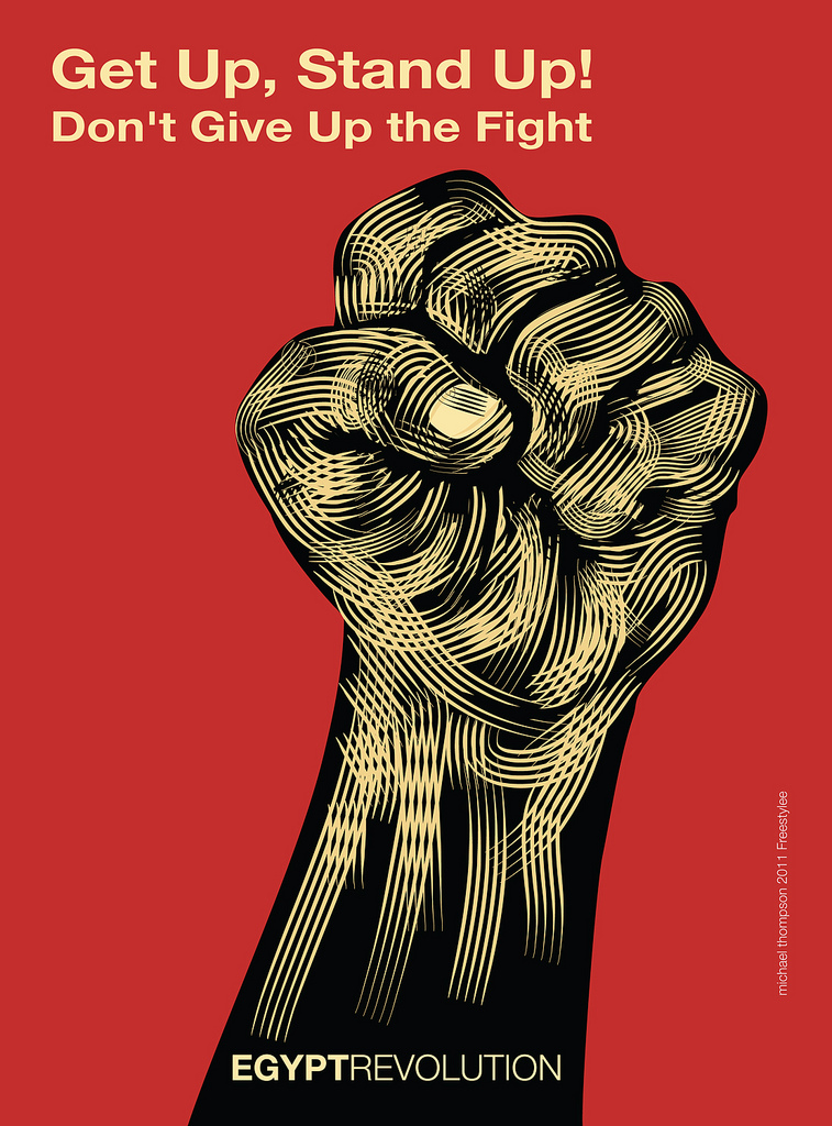 Bob Marley: "Get Up Stand Up"